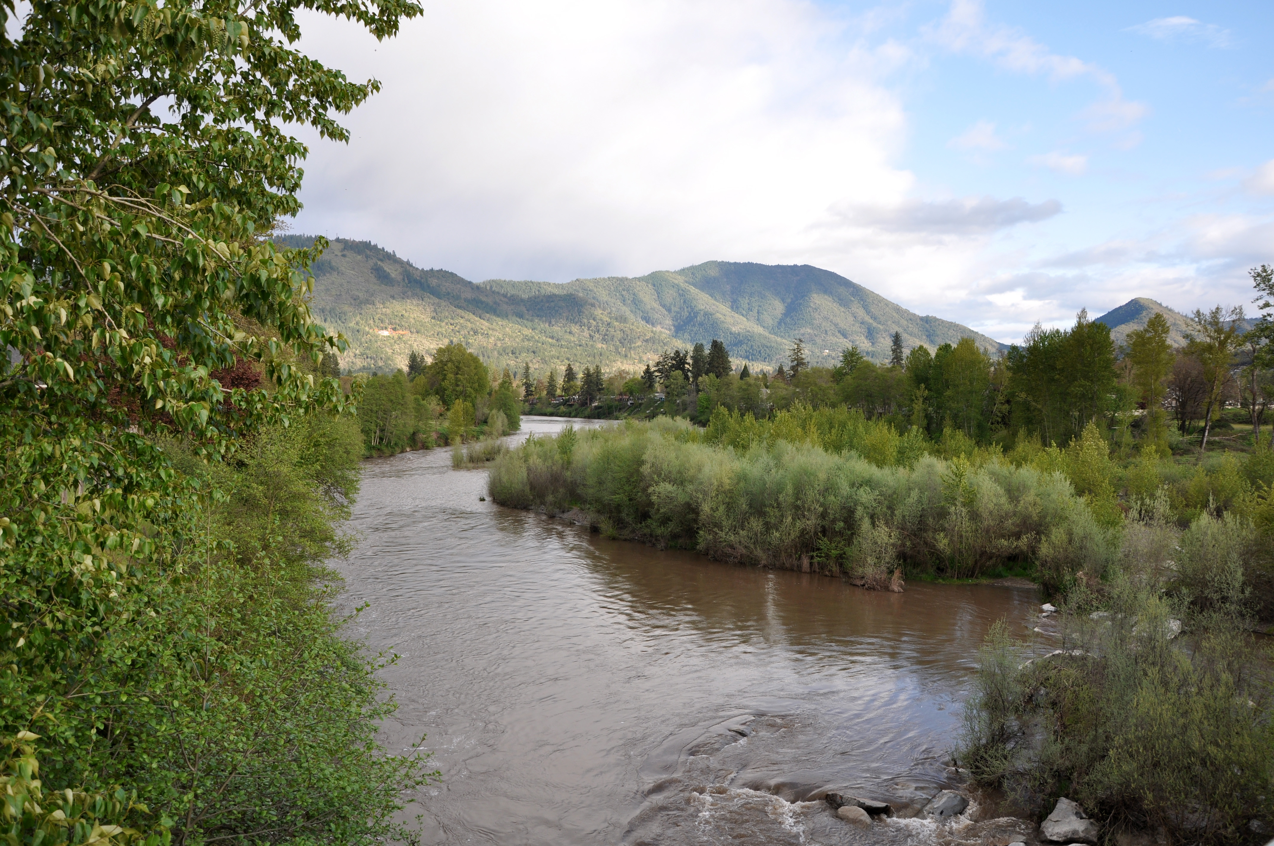 Rogue River at Grants Pass in the U.S. state of Oregon. View is upstream from the bridge carrying U.S. Route 199.